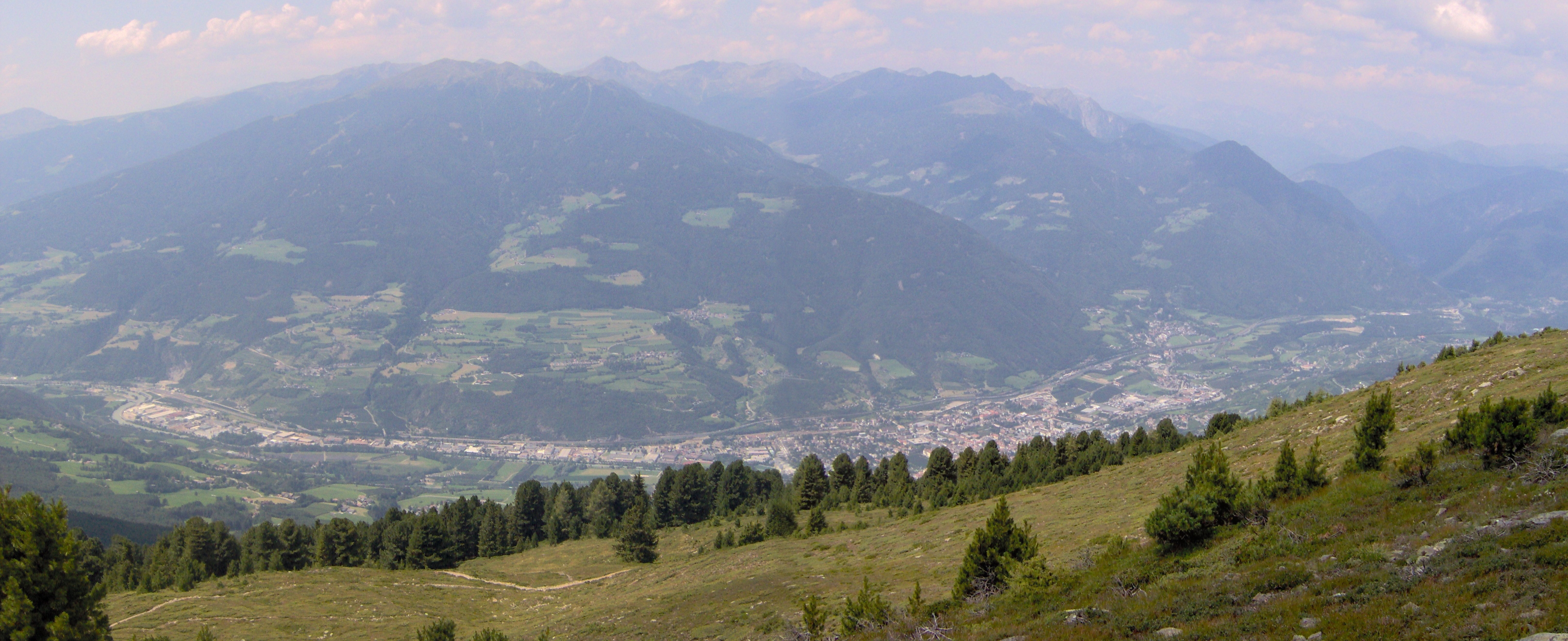 Panorama of Brixen